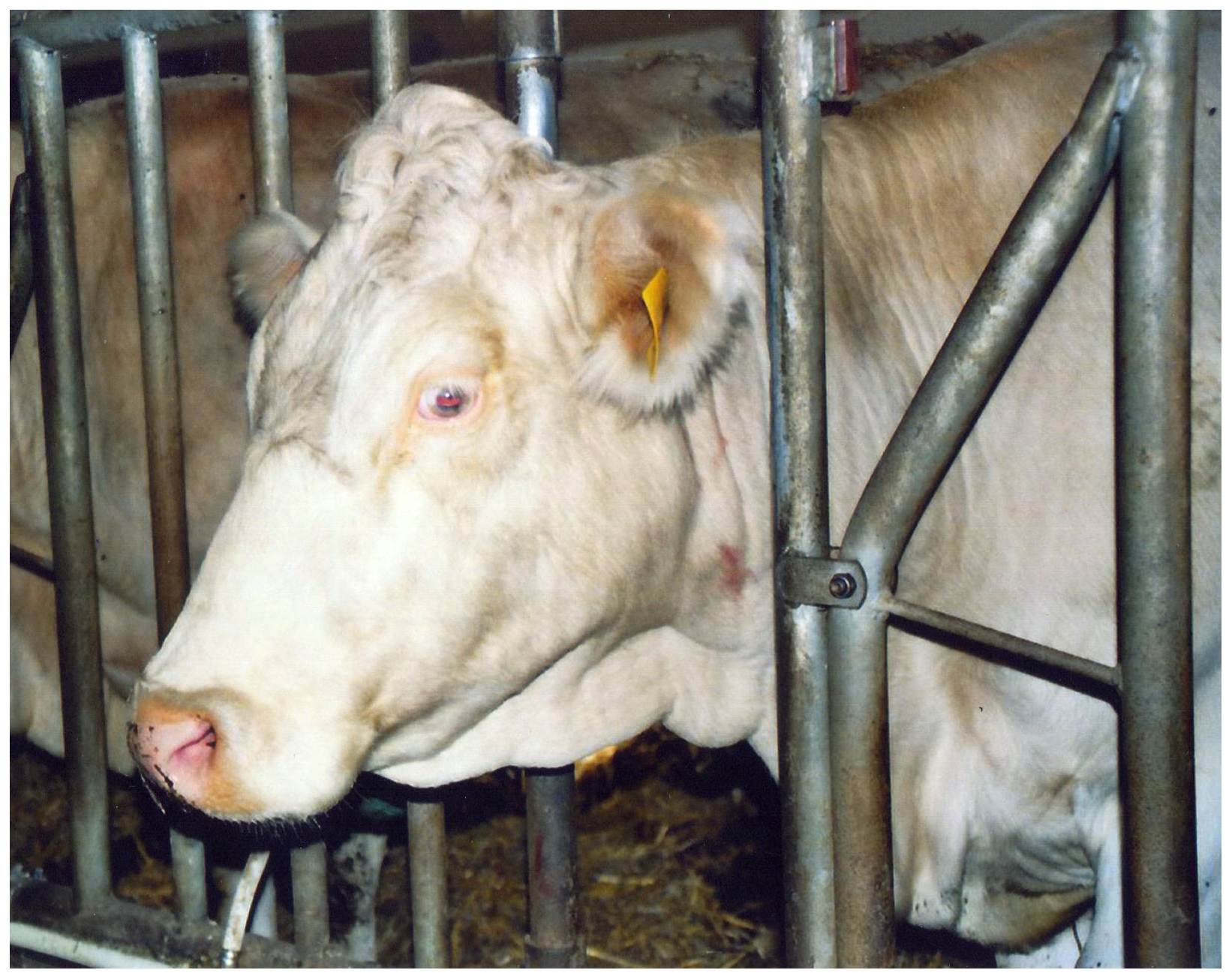 Figure 1. German White Fleckvieh cow exhibiting a colour mutation similar to incomplete albinism with irises being pale blue in the central part and white towards the periphery as well as pigmentless muzzle, eyelashes and eyelids.